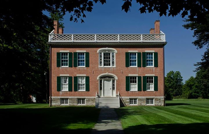 c.1819 James Vanderpoel 'House of History', Kinderhook, NY